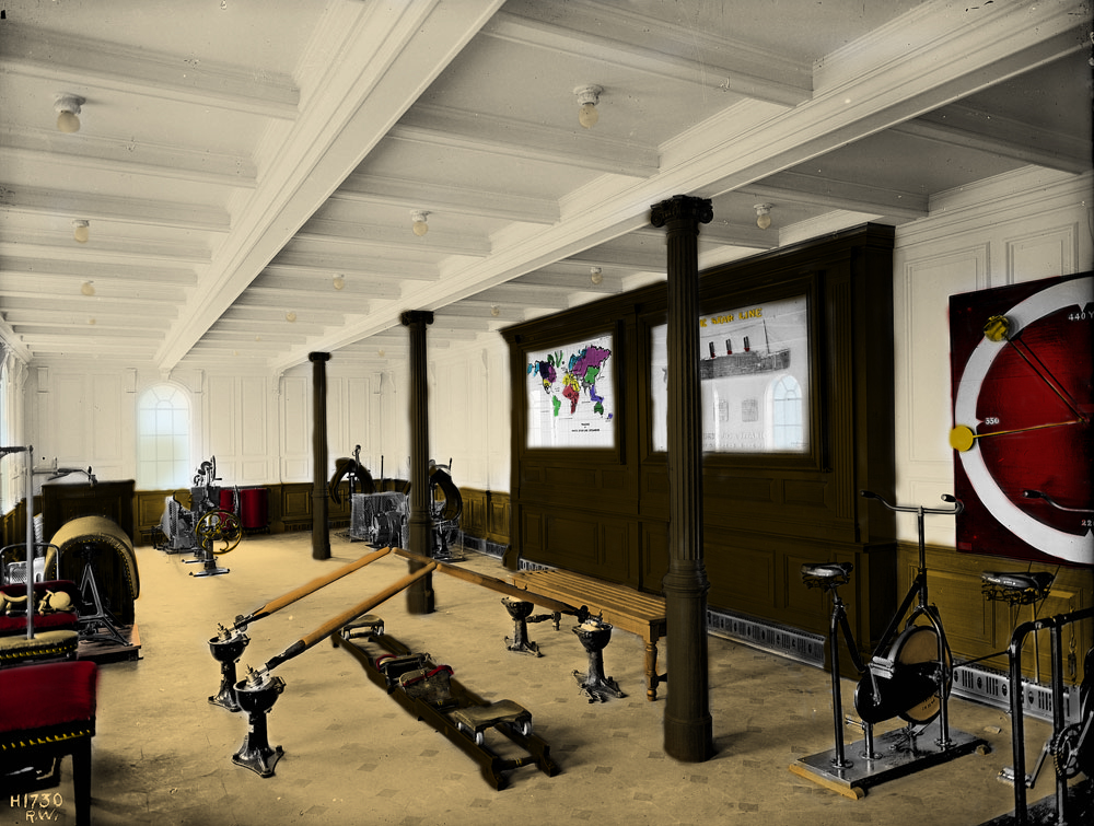 Colorized version of the original black-white photo of Titanic's first class gymnasium.